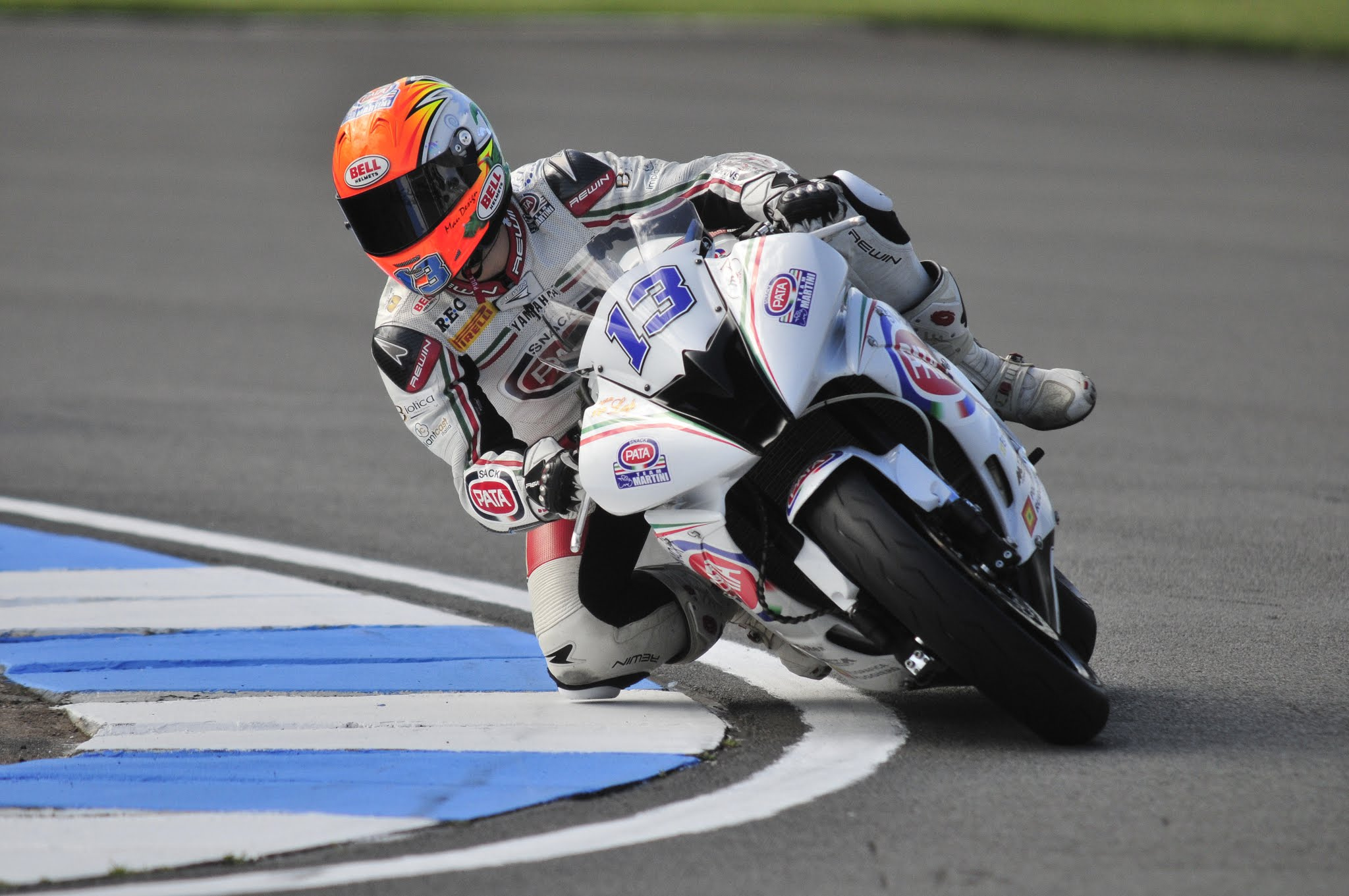 13 Dino Lombardi - World Supersport, Donington 2012